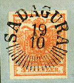 Sadagura (Ukraine) cancellation on KK 3 kreuzer issue 1850